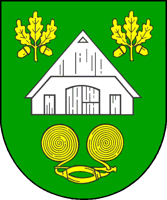 Coat of arms of the municipality Witzhave in Schleswig-Holstein, Germany.